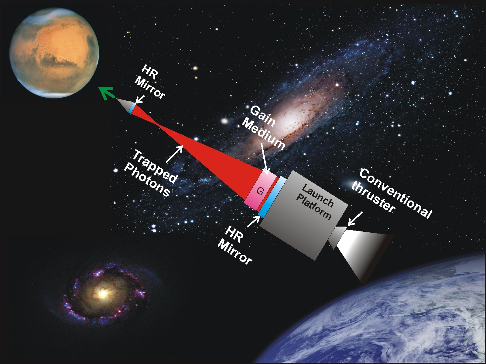 PLT Concept Illustration